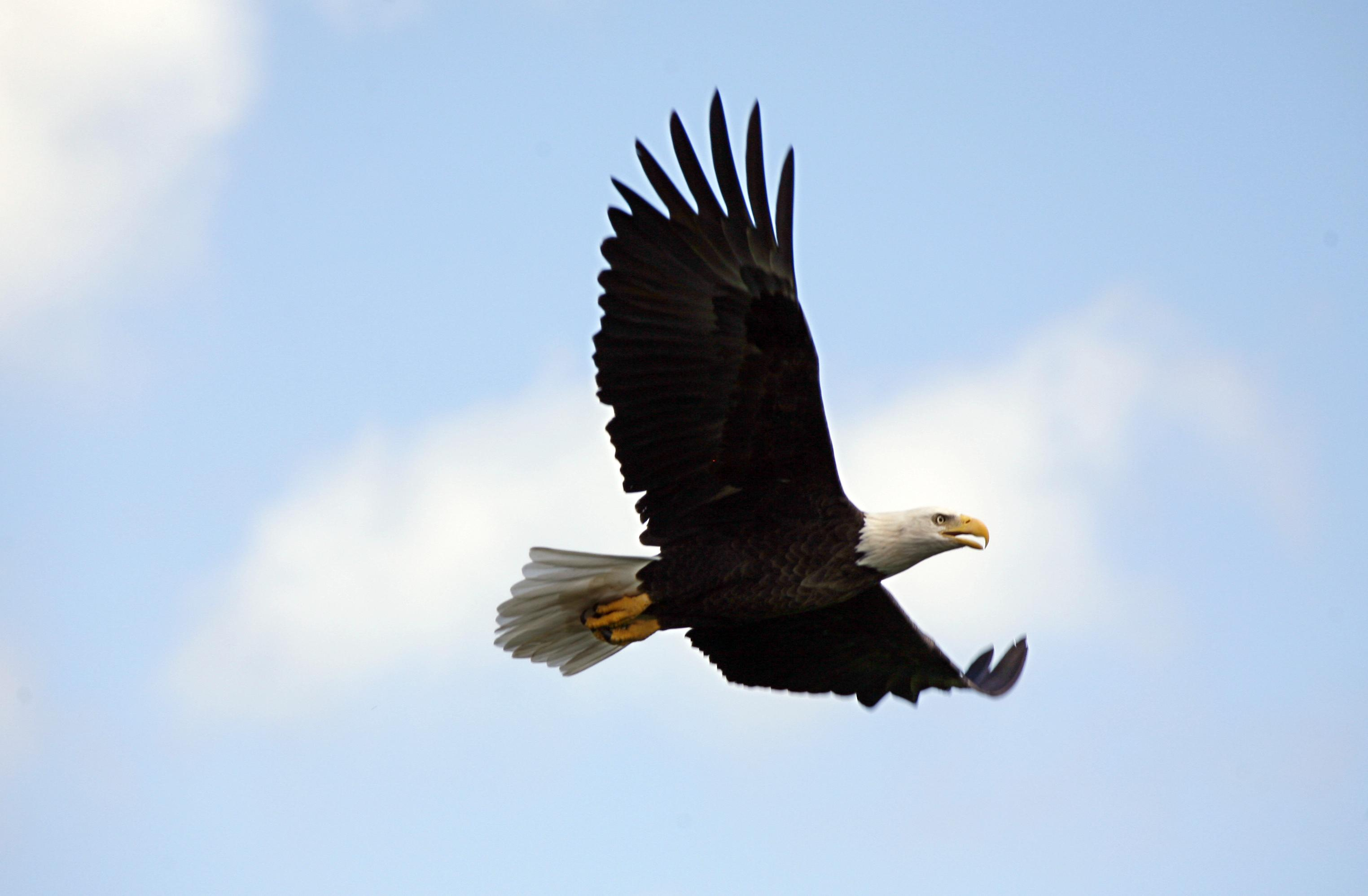 KENNEDY SPACE CENTER, FLA. – At NASA's Kennedy Space Center, a bald eagle soars into the sky. A common sight around KSC, there are at least a dozen active bald eagle nests in the Merritt Island Wildlife Nature Refuge that surrounds KSC. The refuge is a habitat for more than 310 species of birds, 25 mammals, 117 fishes and 65 amphibians and reptiles. In addition, the Refuge supports 19 endangered or threatened wildlife species on Federal or State lists, more than any other single refuge in the U.S.